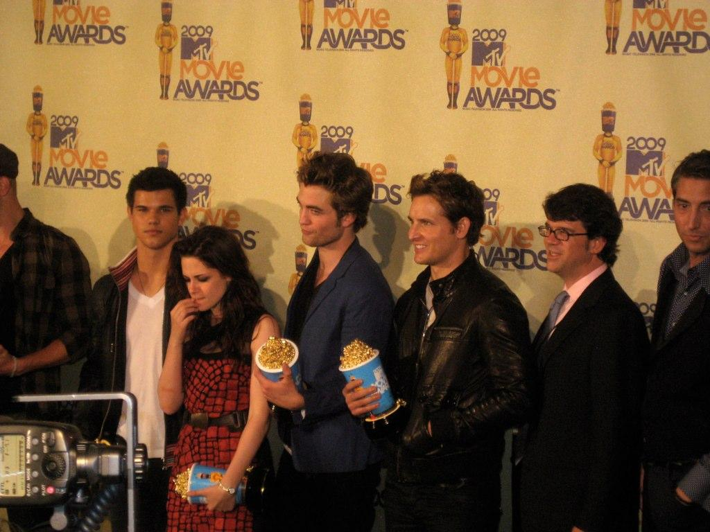 The Cast of Twilight - Kristen Stewart, Taylor Lautner and Robert Pattinson at 2009 MTV Movie Awards.